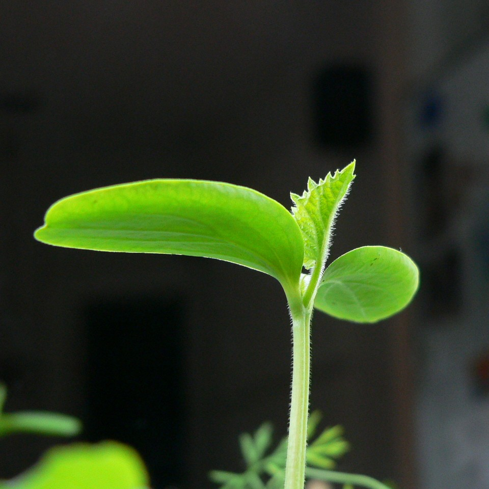 This picture was taken by sa_ku_ra. I cropped the image to make it square.